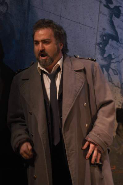 THIS PHOTO OF ME , FERNANDO DEL VALLE, WAS TAKEN DURING A PERFORMANCE, ON AN I PHONE, IT HAS NO COPYRIGHT, AND I ALLOW IT TO BE USED IN THE FULL SPECTRUM OF THE MEDIA.